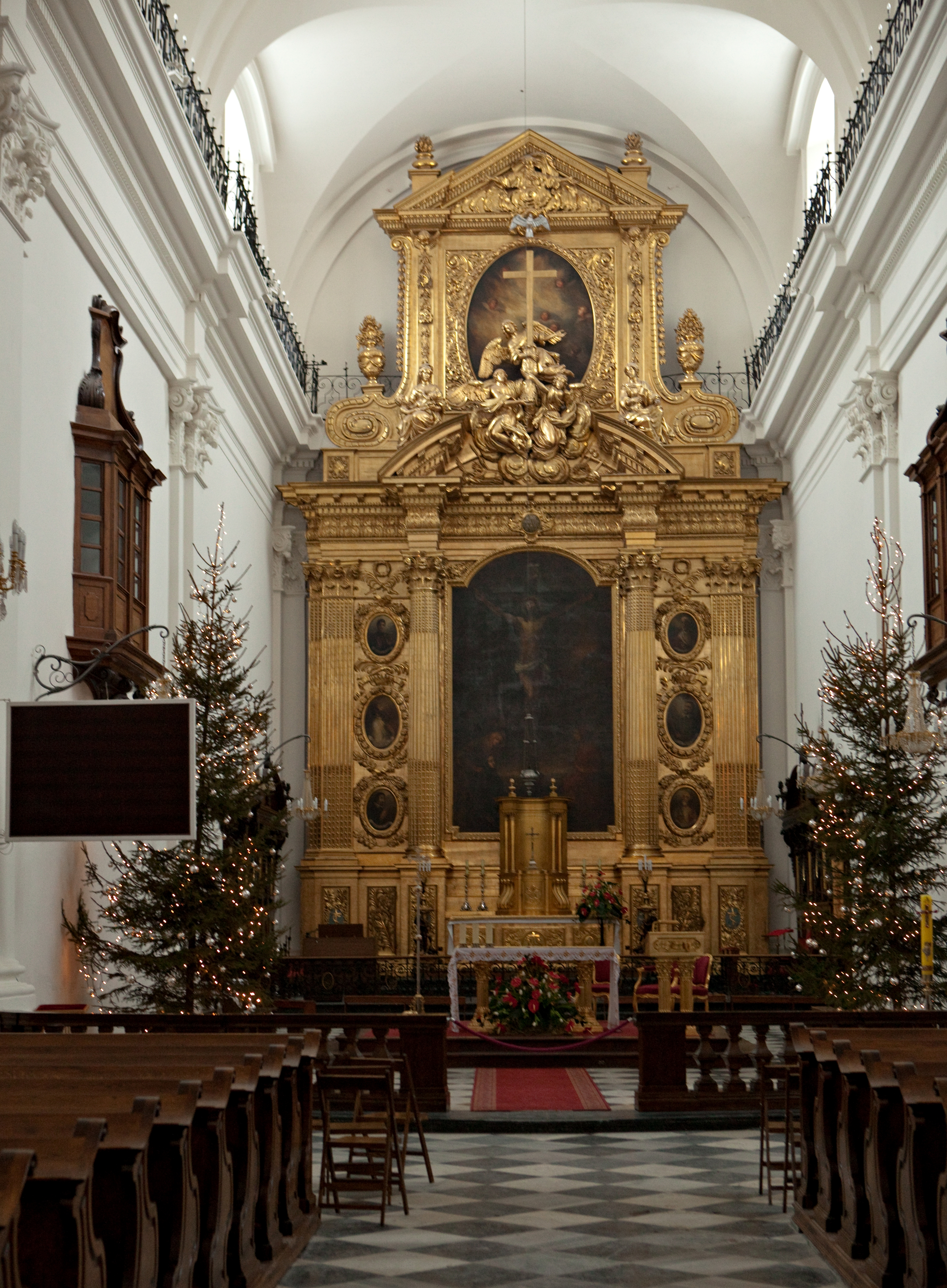 Altar in Holy Cross Church in Warsaw, Poland